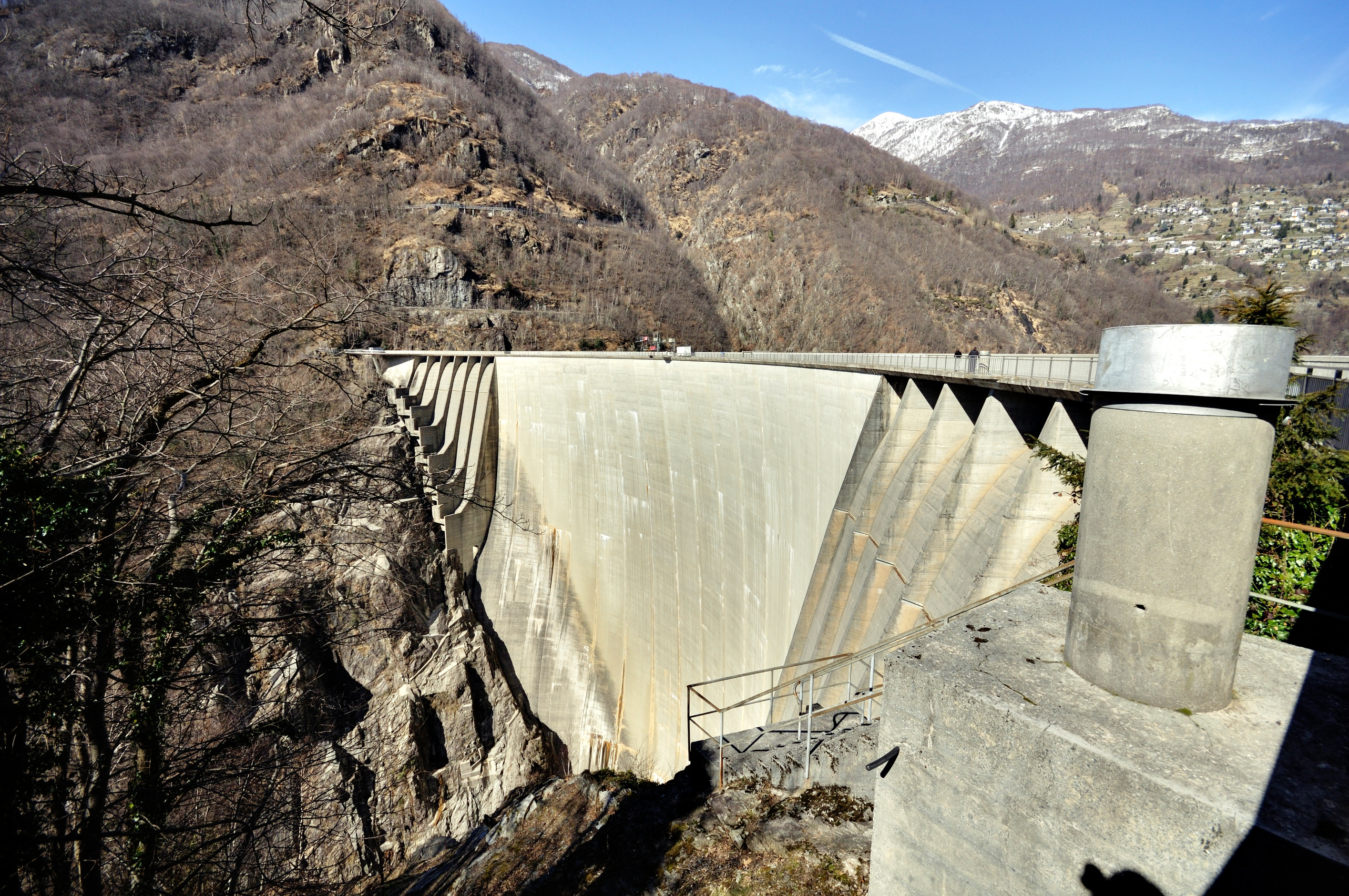 Valley Verzasca, Switzerland: Contra-Dam